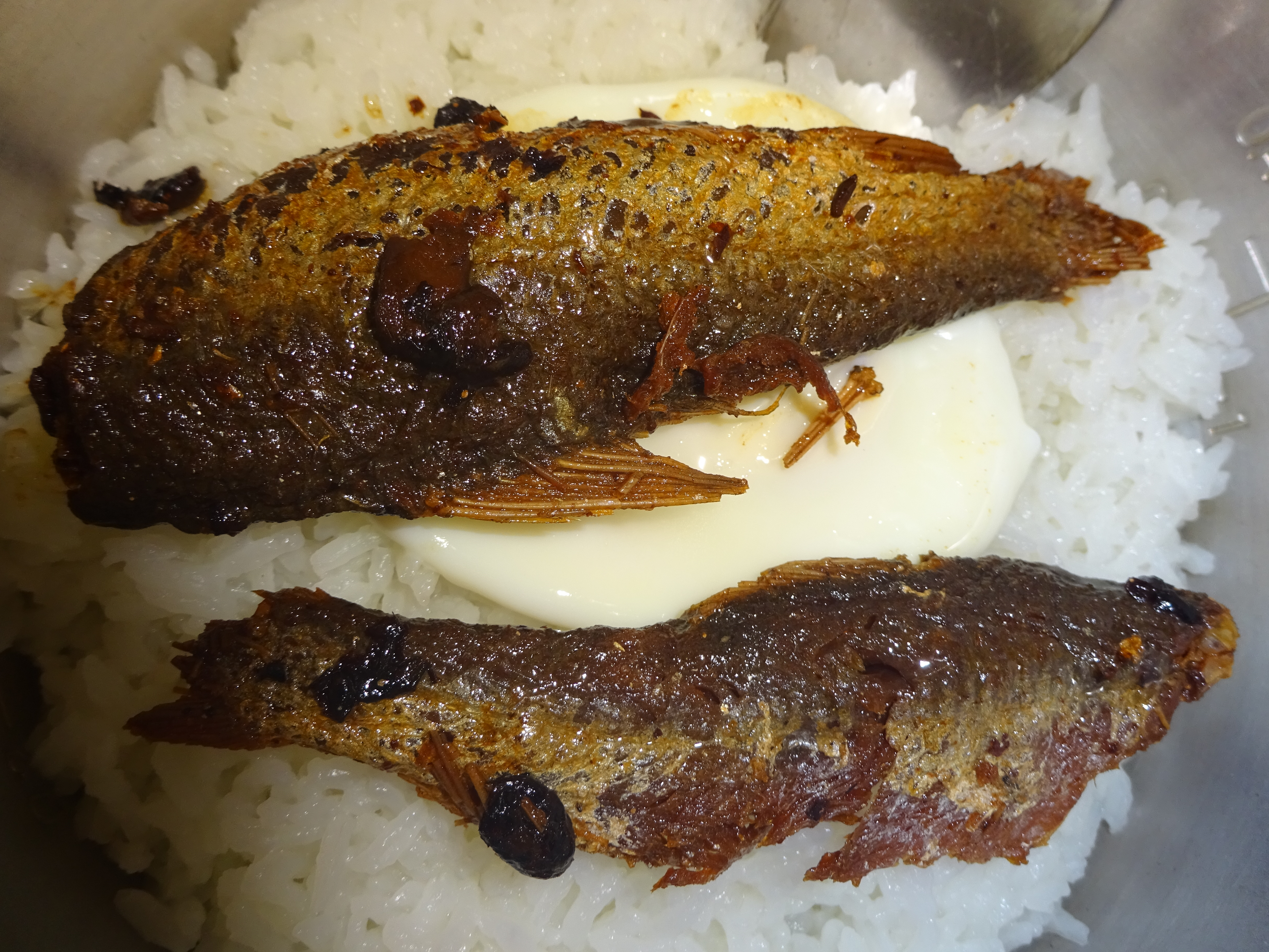 豆豉鯪魚, canned Fried Dace fish with Salted Black Beans & steamed rice & egg